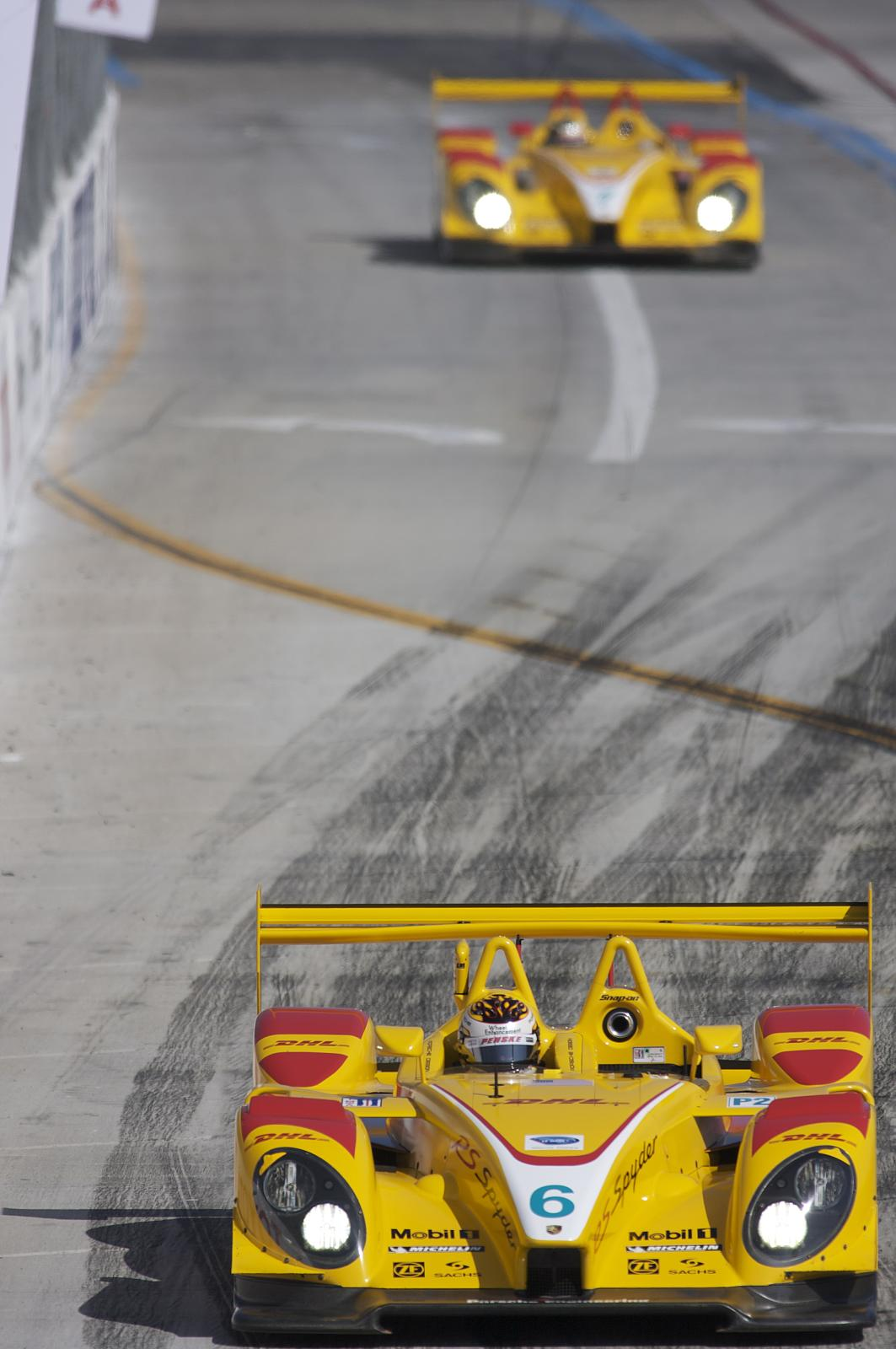 Long Beach Grand Prix ALMS IMSA 2008 Long Beach Grand Prix ALMS IMSA 2008